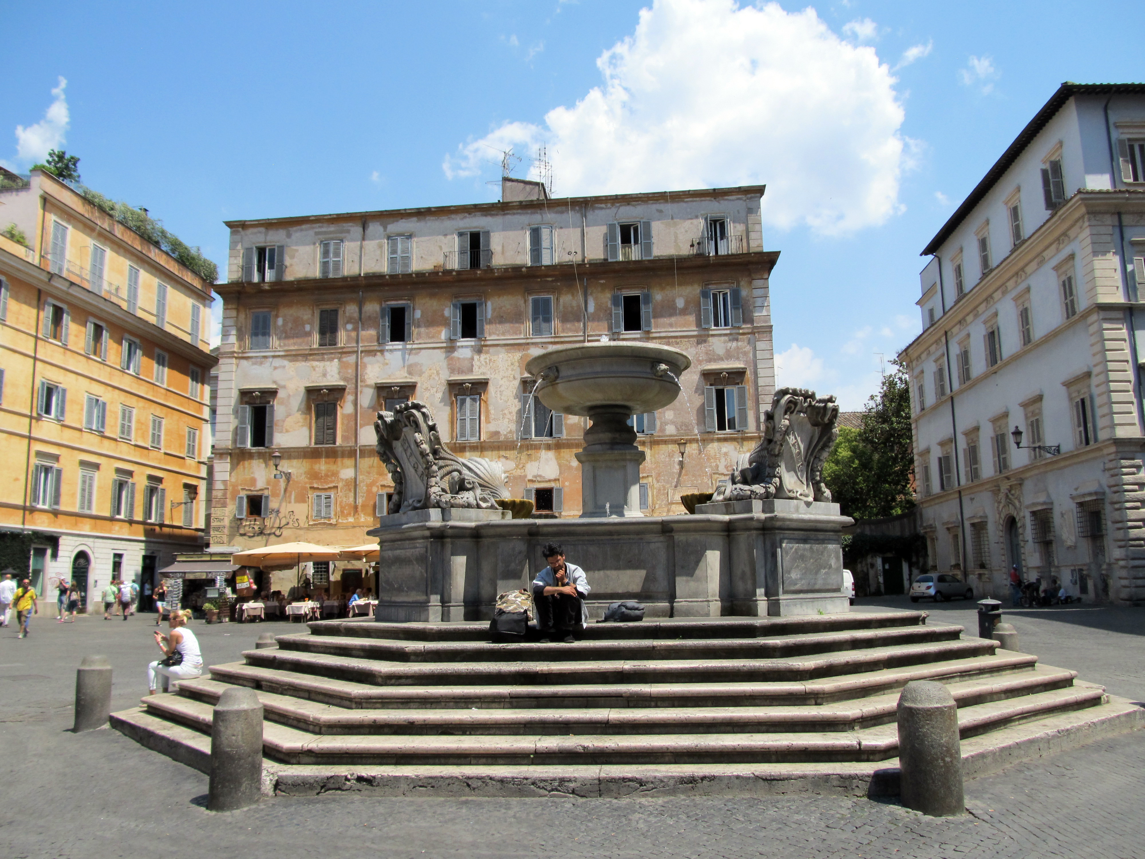 The fountain of the Piazza di Santa Maria in Trastevere is believed to be the oldest fountain in Rome, originating in the 8th century. The present fountain is the work of Donato Bramante (1444 – 11 March 1514) and added onto by other architects. The original fountain was supplied with water by an aqueduct, the Aqua Traiana.